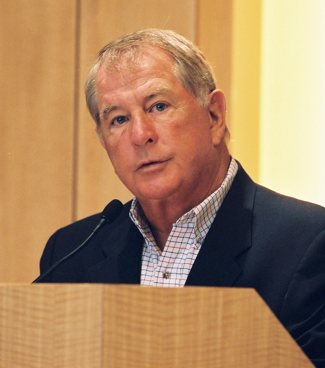 Edward W. Scott, Jr. Headshot from 2011